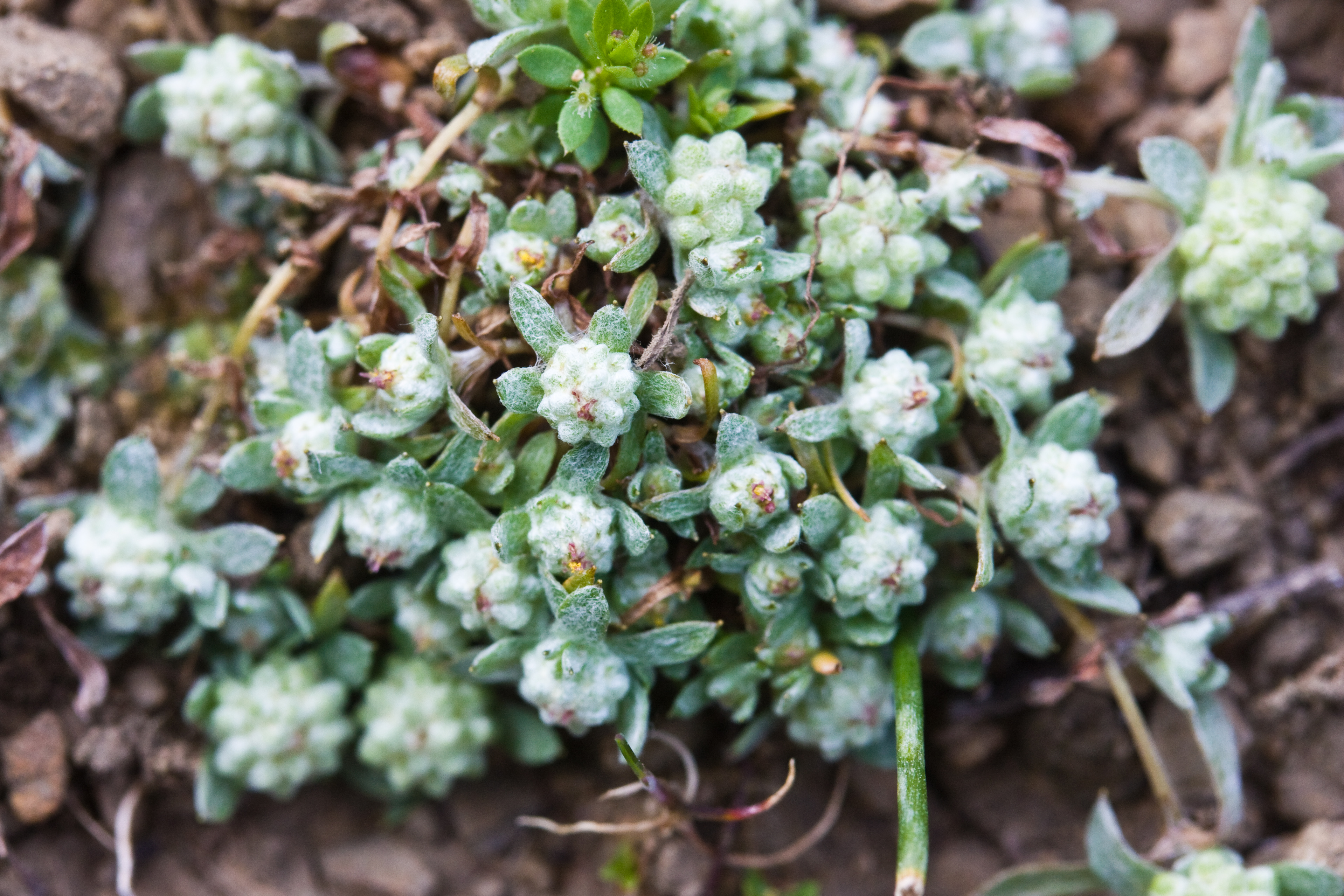 Psilocarphus tenellus, Slender Woolly-heads